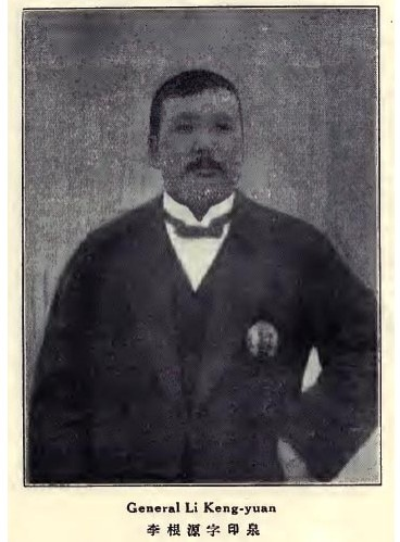 Li Genyuan (1879-1965)